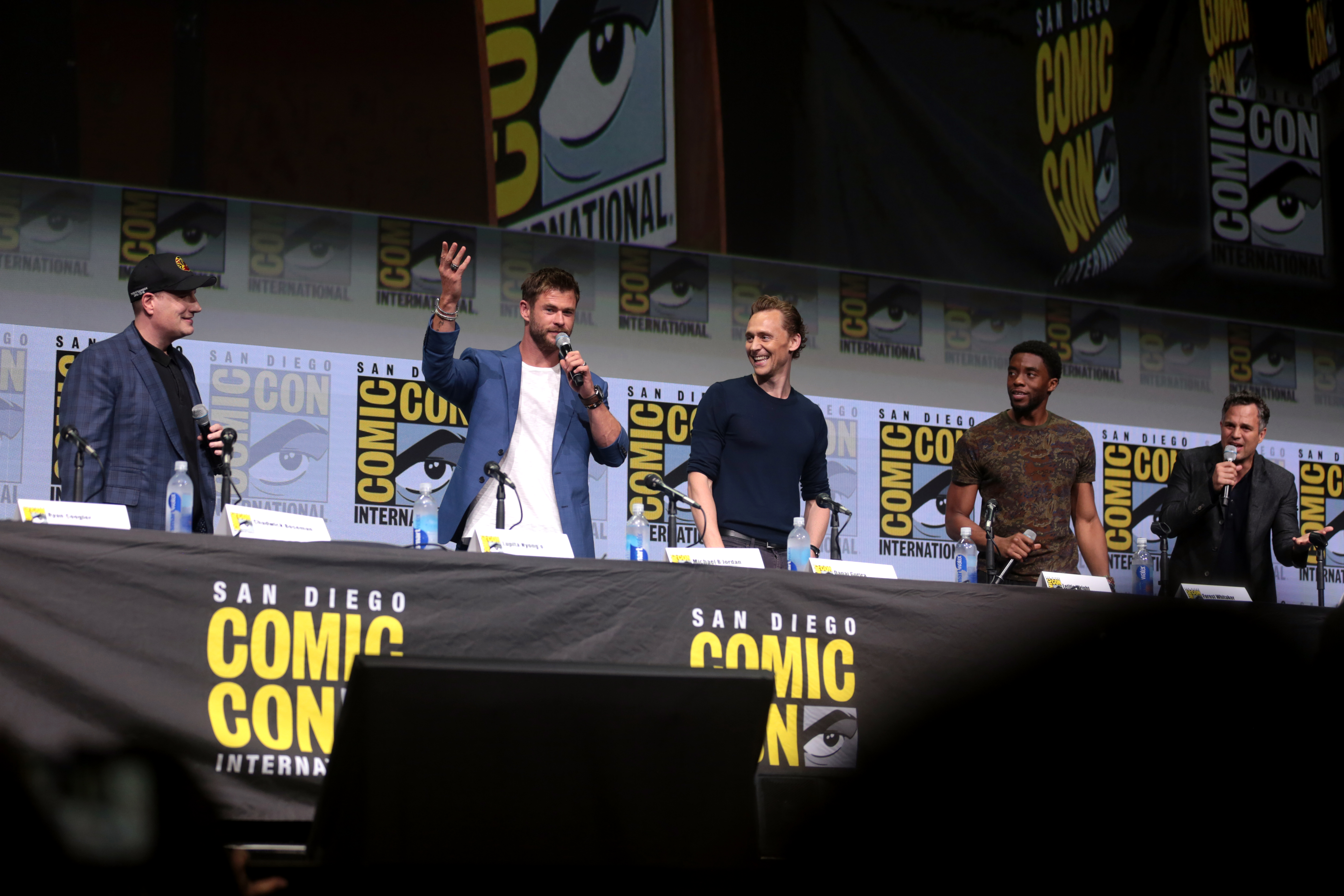 Kevin Feige, Chris Hemsworth, Tom Hiddleston, Chadwick Boseman and Mark Ruffalo speaking at the 2017 San Diego Comic Con International, for "Avengers: Infinity War", at the San Diego Convention Center in San Diego, California.